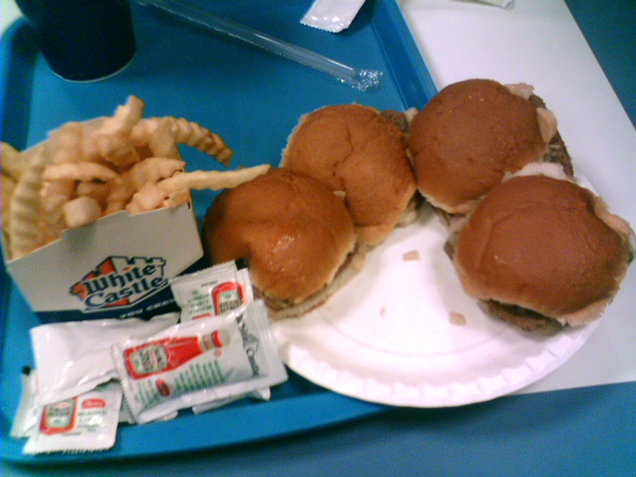 Photograph of a White Castle meal.